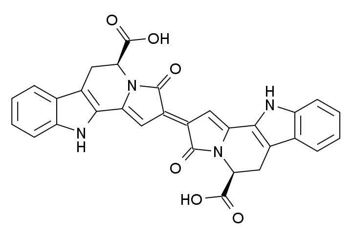 i drew this anyone can use it